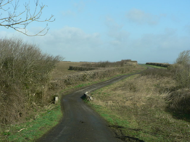 Heol Shwlac - a lane to Castle-upon Alun Low walls on each side of the road mark a culvert through which Clemenstone Brook flows. At least it would if there were any water in it!